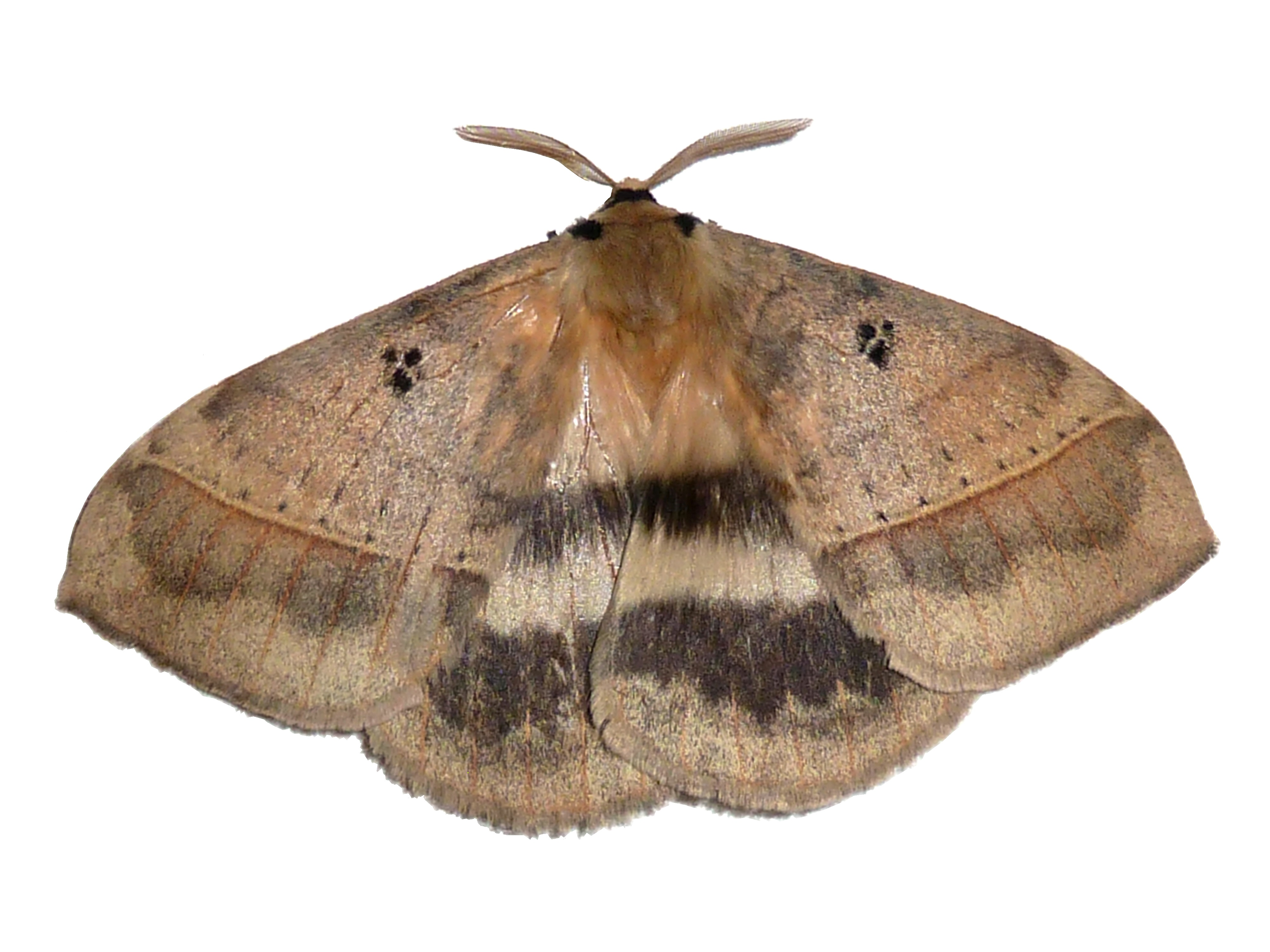 Jana e. eurymas at Seringveld near Pretoria